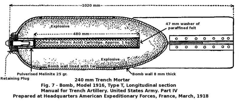 Cross-sectional view showing dimensions and filling of 240 mm (9.45 inch) Trench Mortar bomb as adopted by the US Army.